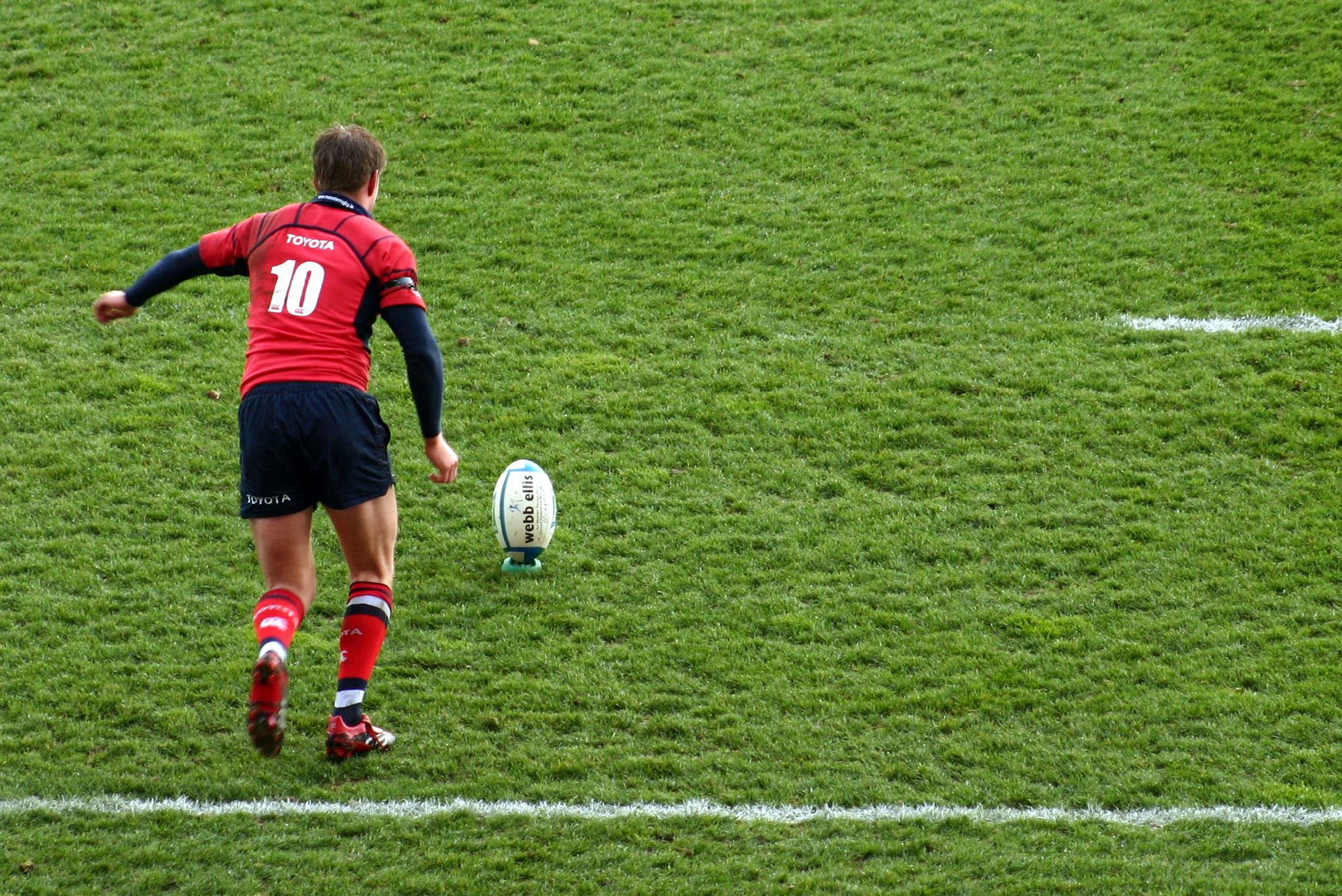 Munster (rugby) player Ronan O'Gara